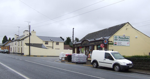 Gibney's general store, Carnaross, Co. Meath